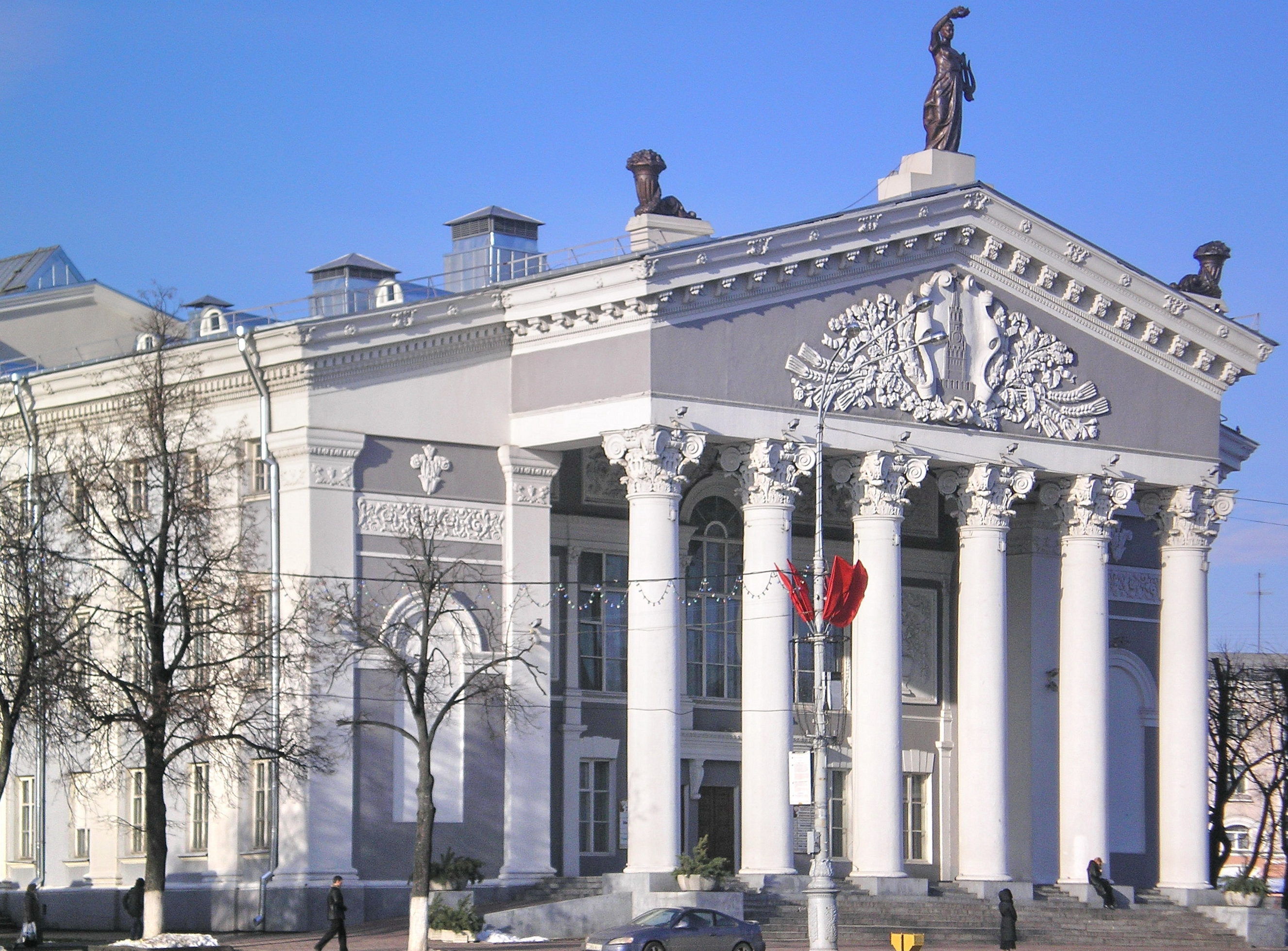 Gomel drama theatre